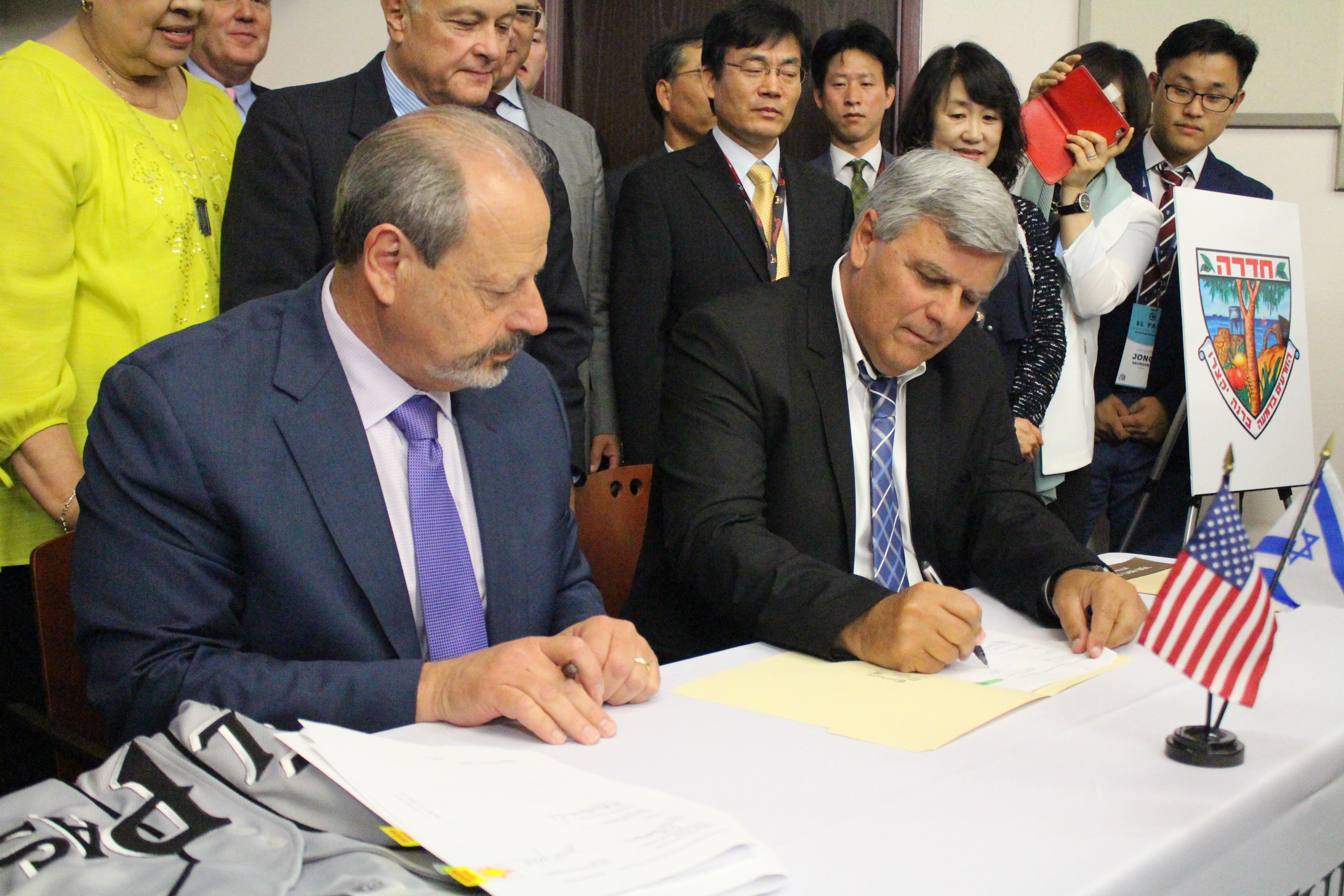 Sister cities signing between El Paso, Texas, United States and Hadera, Israel.